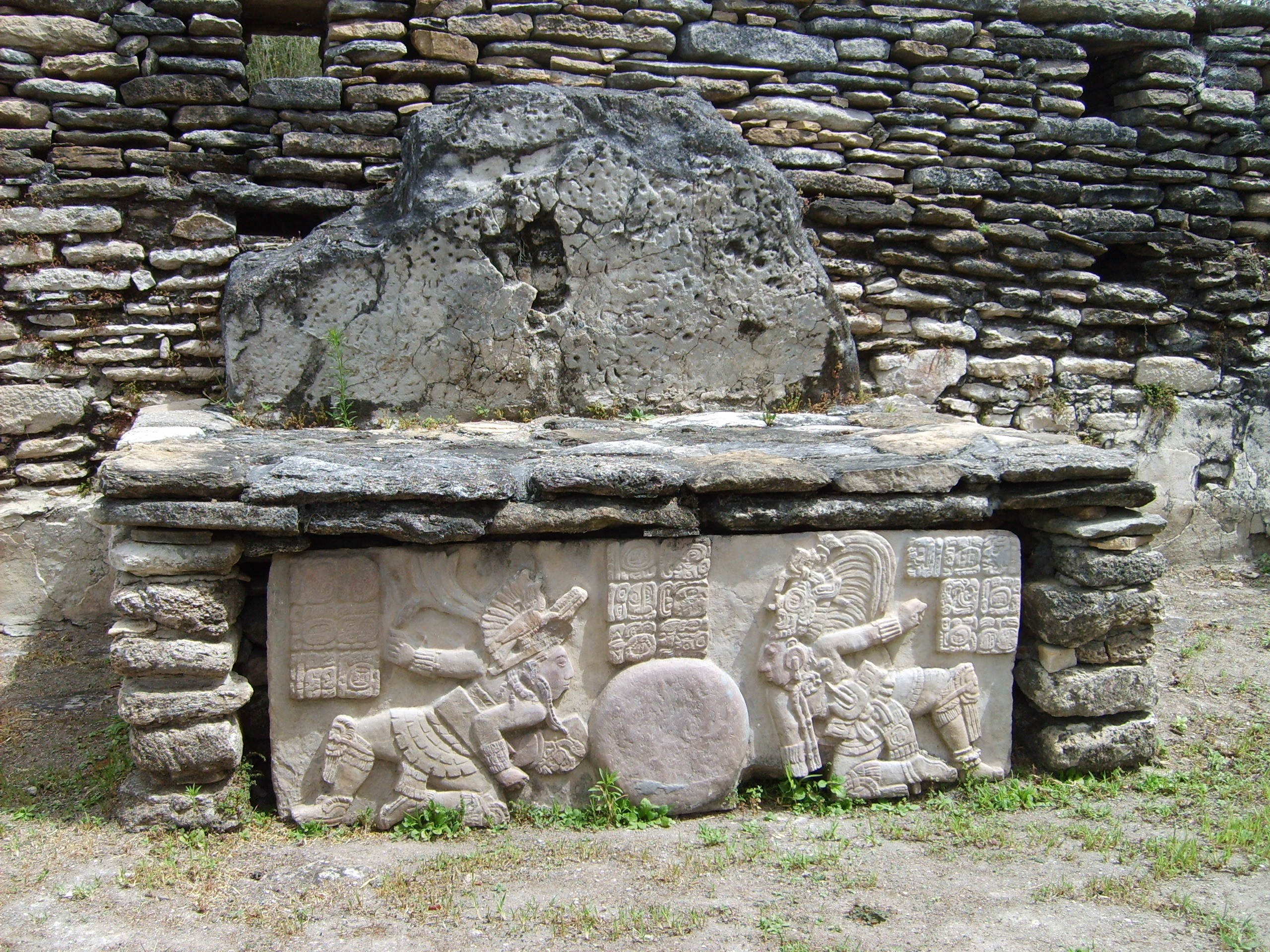 Sculpture representing the Mesoamerican ballgame, at the Classic period Maya city of Tonina, in Chiapas, Mexico.